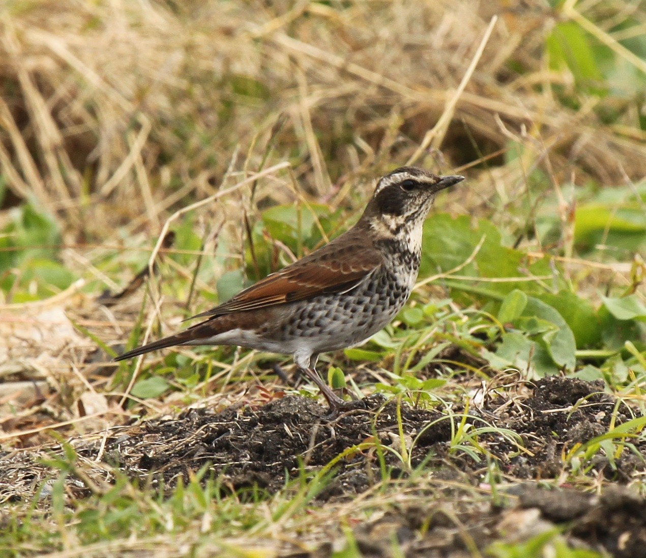 A Dusky Thrush in southern Japan.